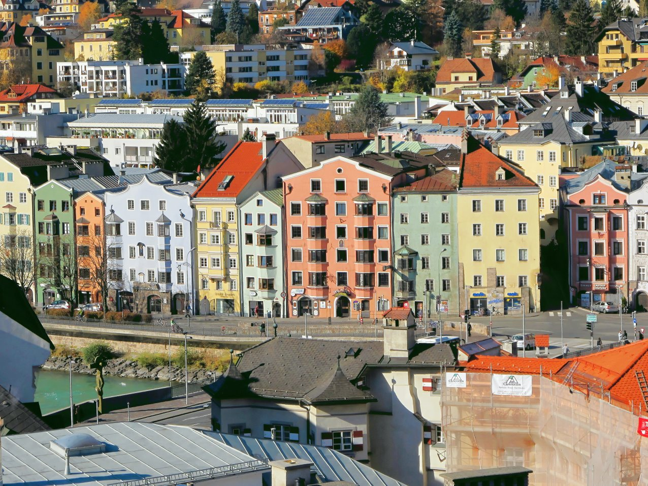 Innsbruck, norhern Bank of River Inn, View from Tower "Altstadtturm"